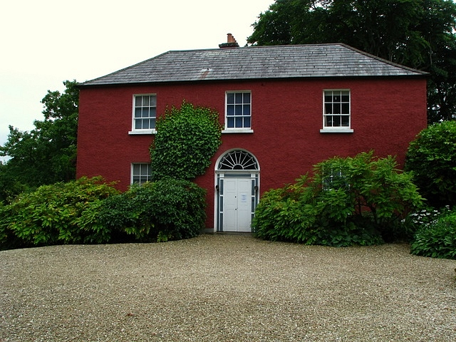 Glebe House Note – the Google maps here are useless. Please refer to OSI Discovery Series Sheet 6 from which all accurate grid references have been made. House on the shores of Lake Gartan formerly occupied by the artist Derek Hill. Donated to the Irish State, it now houses a gallery and exhibition.